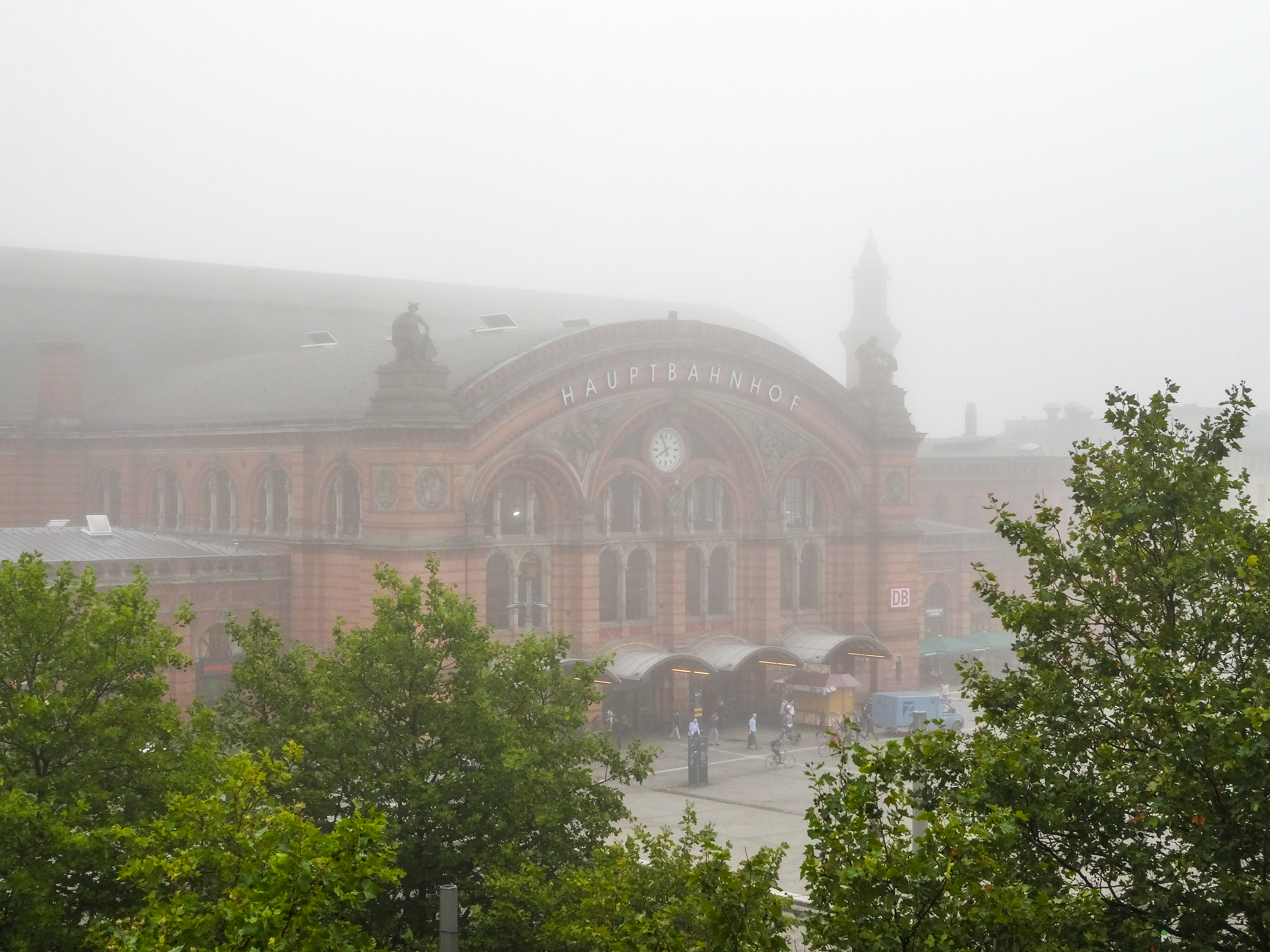 Bremen main station in fog. September 2015